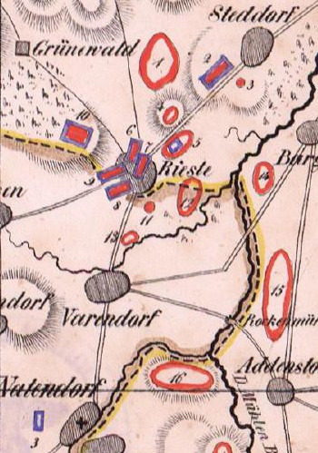 Prehistoric tombs near Rieste